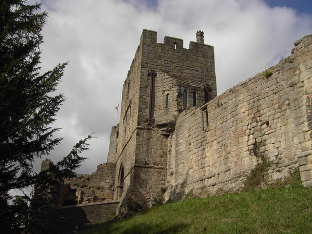 Prudhoe Castle (grid reference NZ09166341) is a ruined medieval English castle situated on the south bank of the River Tyne at Prudhoe, Northumberland. View of the front gate to the castle.